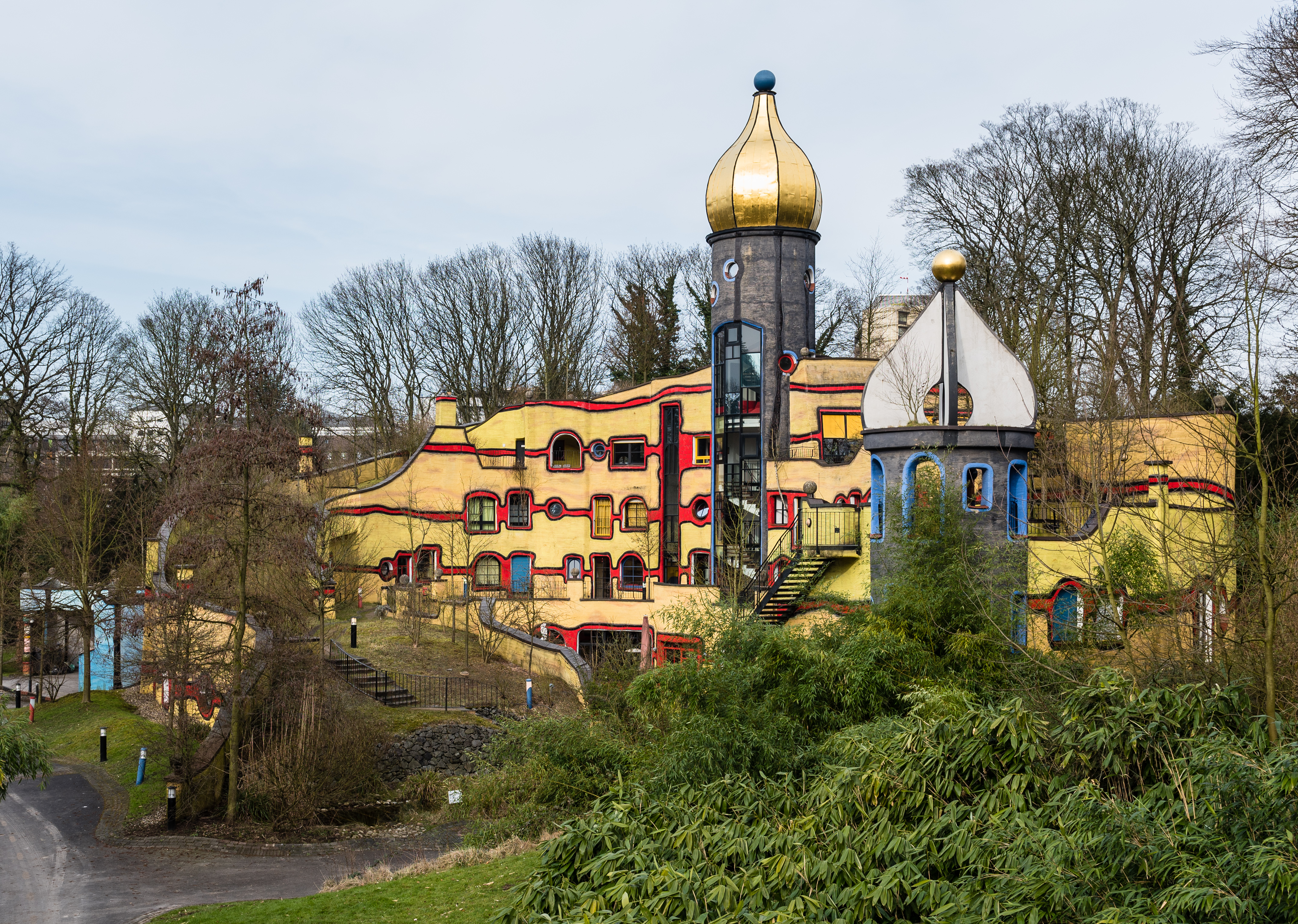 Ronald McDonald house in Essen designed by Hundertwasser photographed in winter